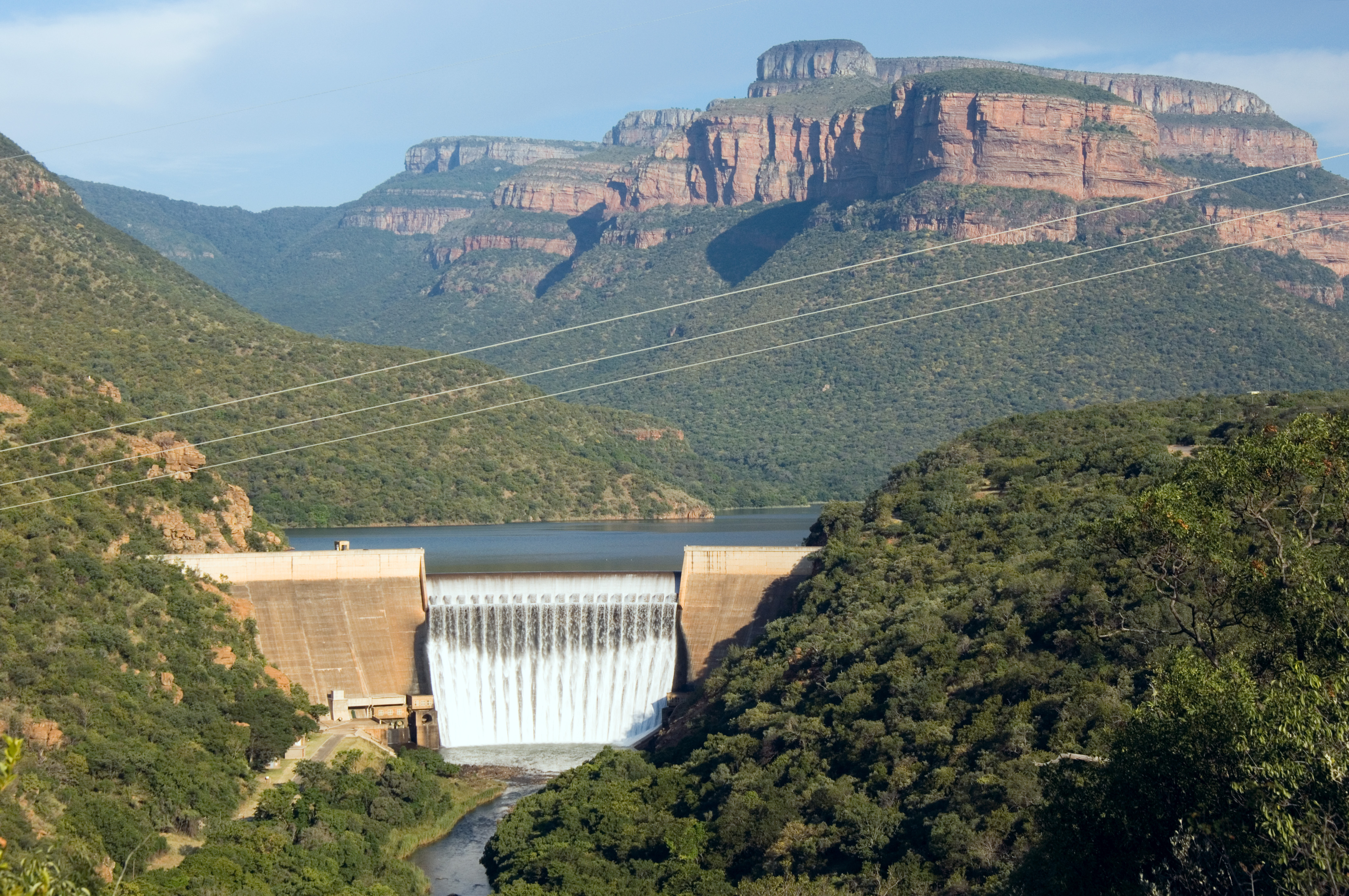 Dam wall of the Blyderivierpoort dam in Mpumalanga, South Africa. It provides irrigation for farms in the Hoedspruit area of Limpopo, South Africa.